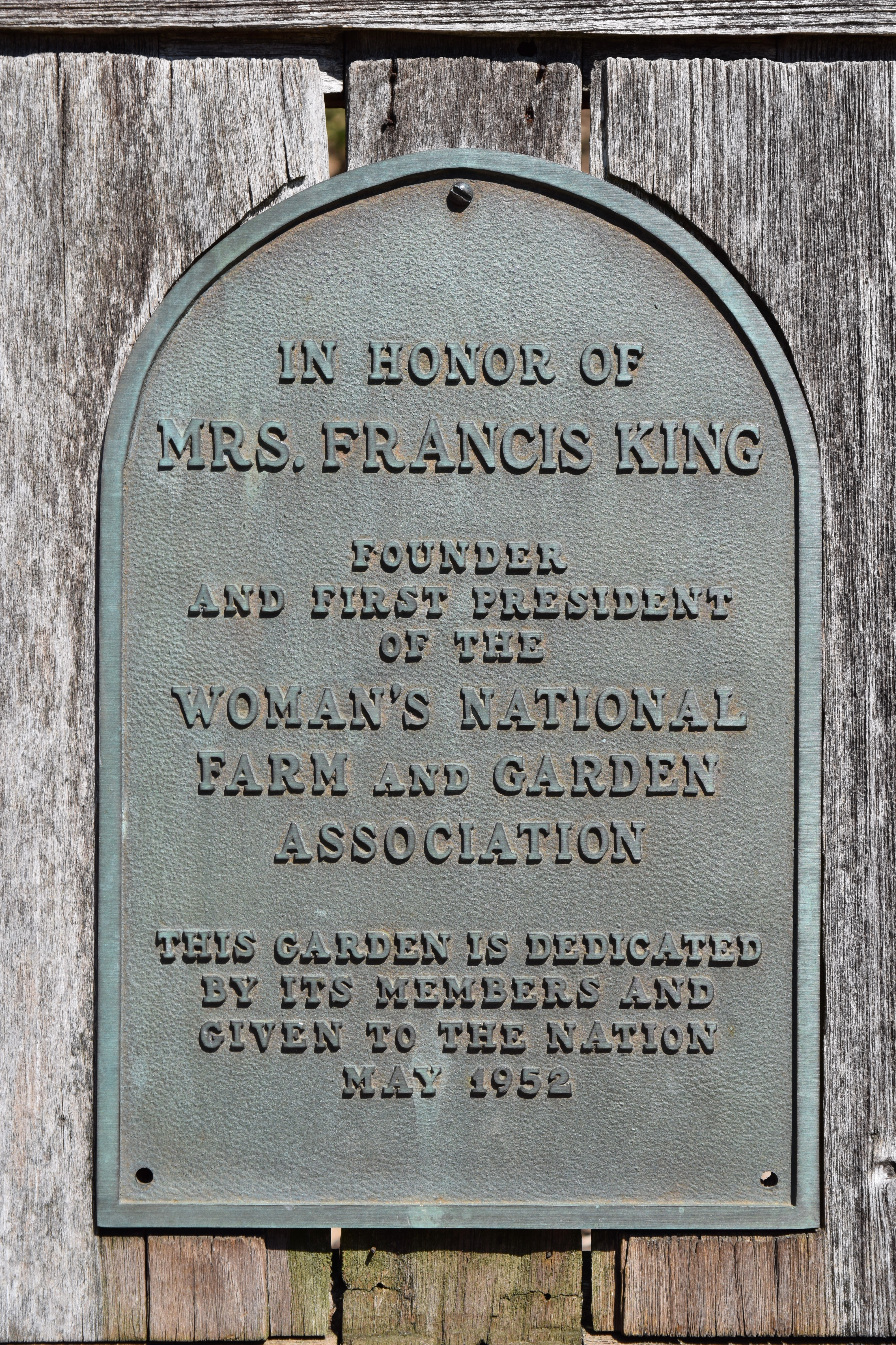 Marker honoring Louisa Boyd Yeomans King. "In Honor of Mrs. Francis King/Founder and First President of the Woman's National Farm and Garden Association/This garden is dedicated by its members and given to the nation/May 1952" National Arboretum Dogwood Collection, Washington, D.C.